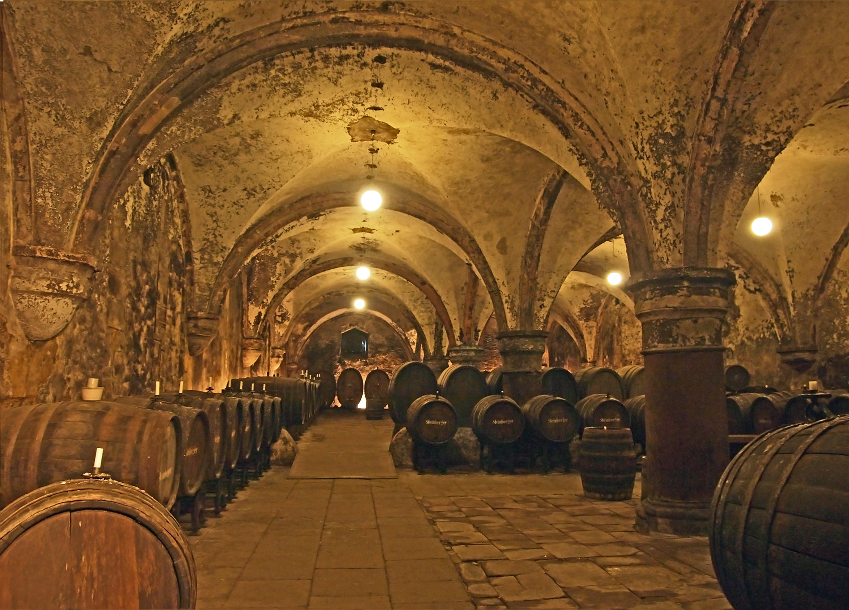 Fratery, today wine cellar of Monastery Eberbach near Eltville and Wiesbaden, Germany